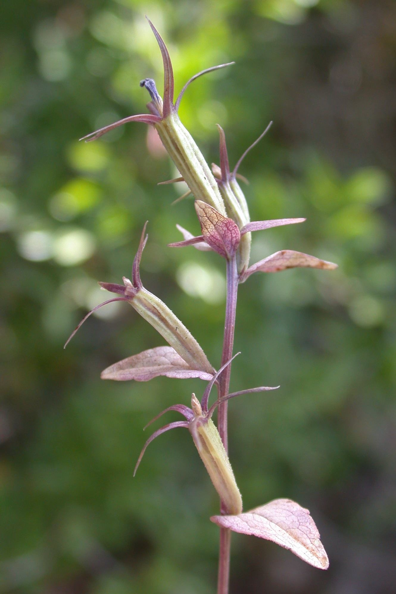 Legousia falcata (Ten.) Fritsch ex Janch., fruits, Mount Carmel, April 29, 2008.